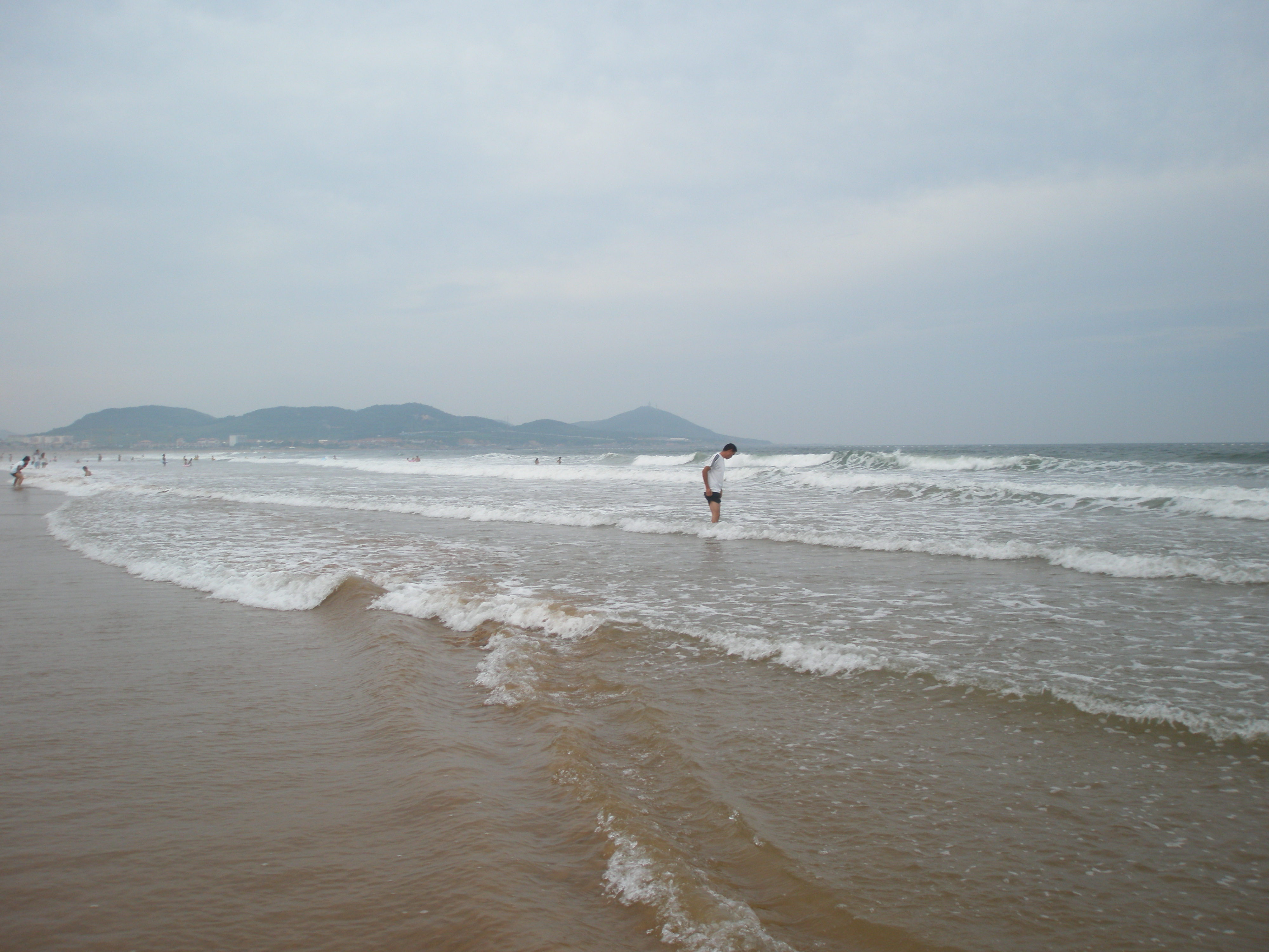 beach of Jinsha,Huangdao,Qingdao,china